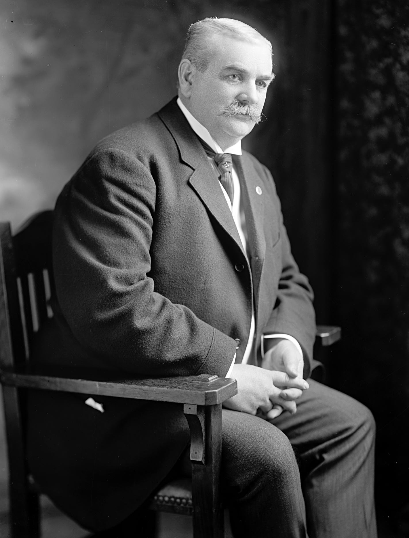 George A. Loud, US Representative from Michigan